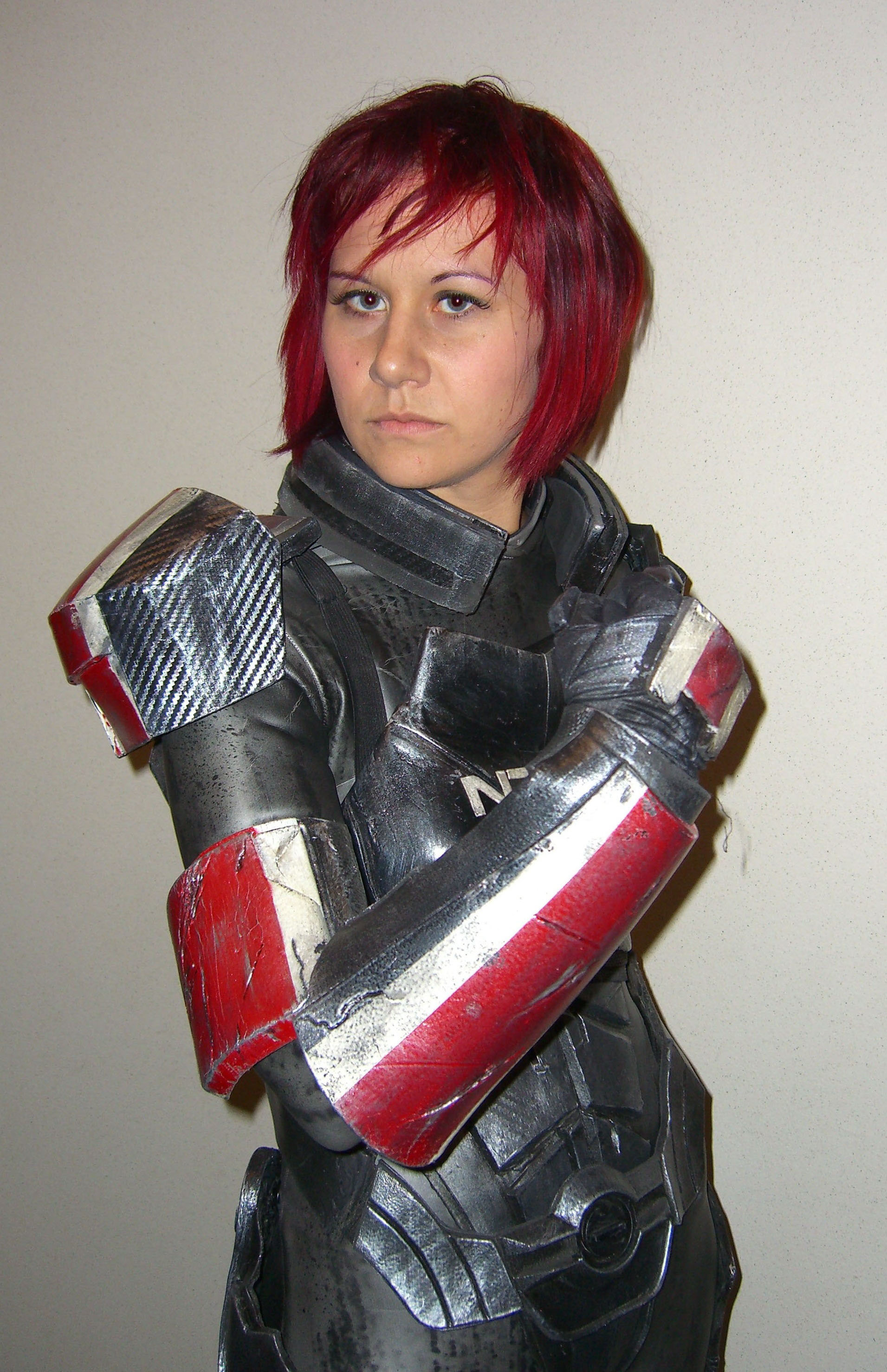 Costume designer and cosplayer Holly Conrad, star of the documentary Comic-Con Episode IV: A Fan's Hope, following a panel discussion on The Psychology of Cosplay on Day 2 of the 2012 New York Comic Con, Friday October 12, 2012 at the Jacob K. Javits Convention Center in Manhattan. This photo was created by Luigi Novi. It is not in the public domain, and use of this file outside of the licensing terms is a copyright violation.